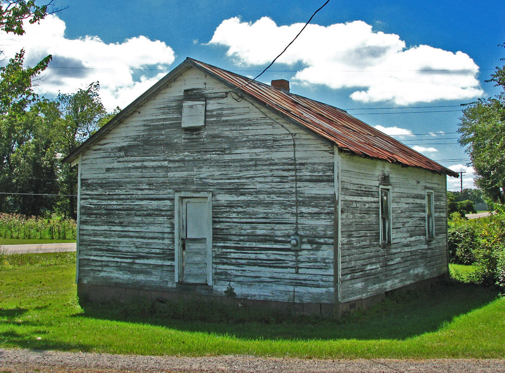 An abandoned schoolhouse on the southern edge of Stockdale in far northern Madison Township, Scioto County, Ohio, United States. The gravel road at the very bottom of this image marks the boundary between Scioto and Pike counties.